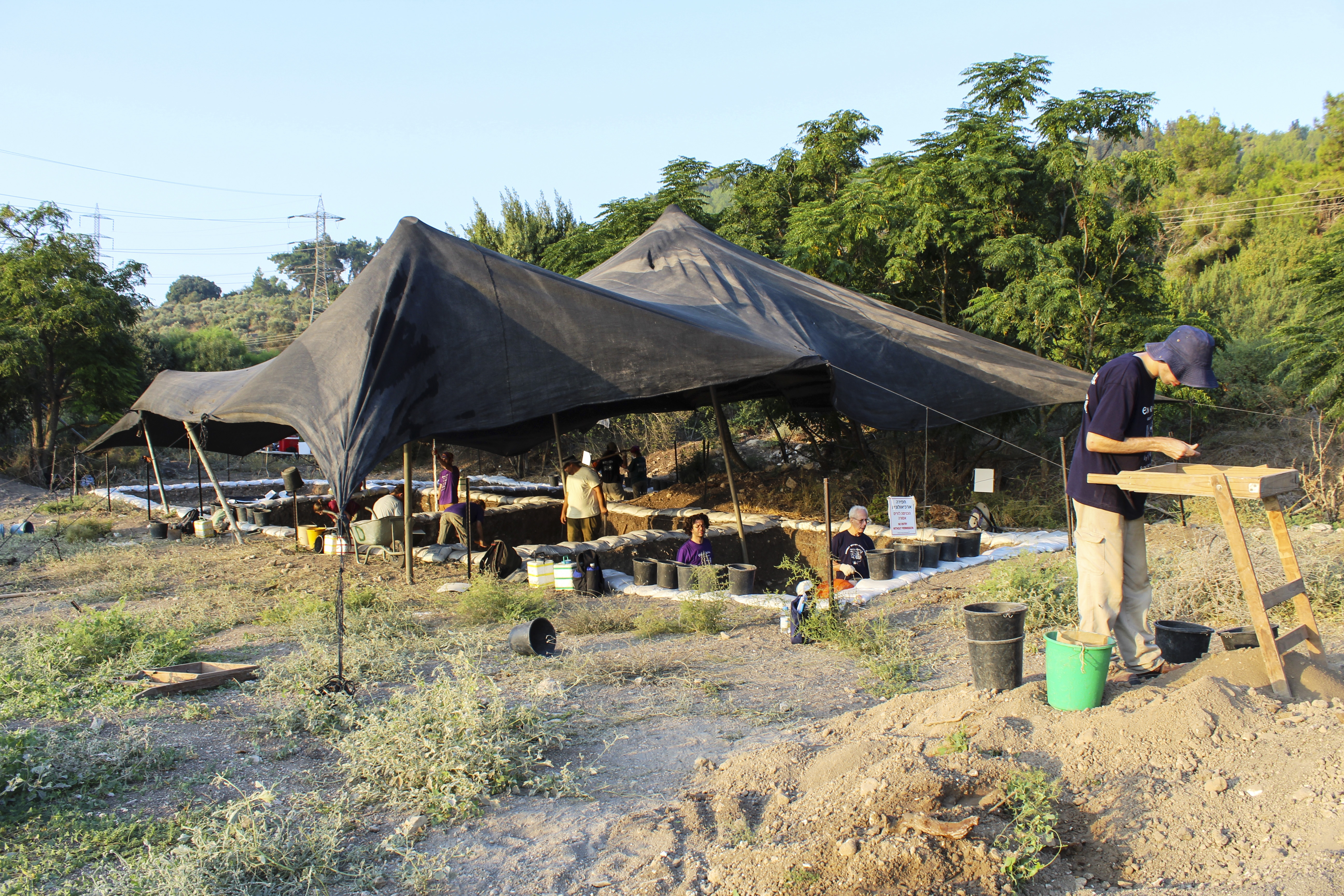 Excavation area A of Ein el-Jarba